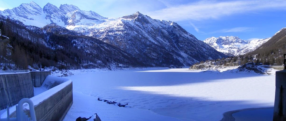 Ceresole's lake wintar panorama (TO, Italy)